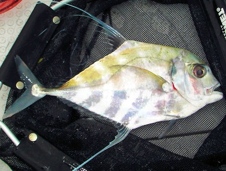 Alectis ciliarus taken off Accra, Ghana